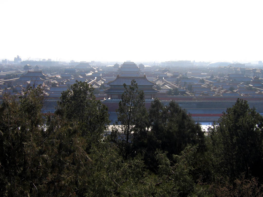 The Forbidden City or Forbidden Palace (Chinese: 紫禁城; pinyin: zǐ jìn chéng; literally "Purple Forbidden City"), located at the exact center of the ancient City of Beijing, was the imperial palace during the mid-Ming and the Qing dynasties.